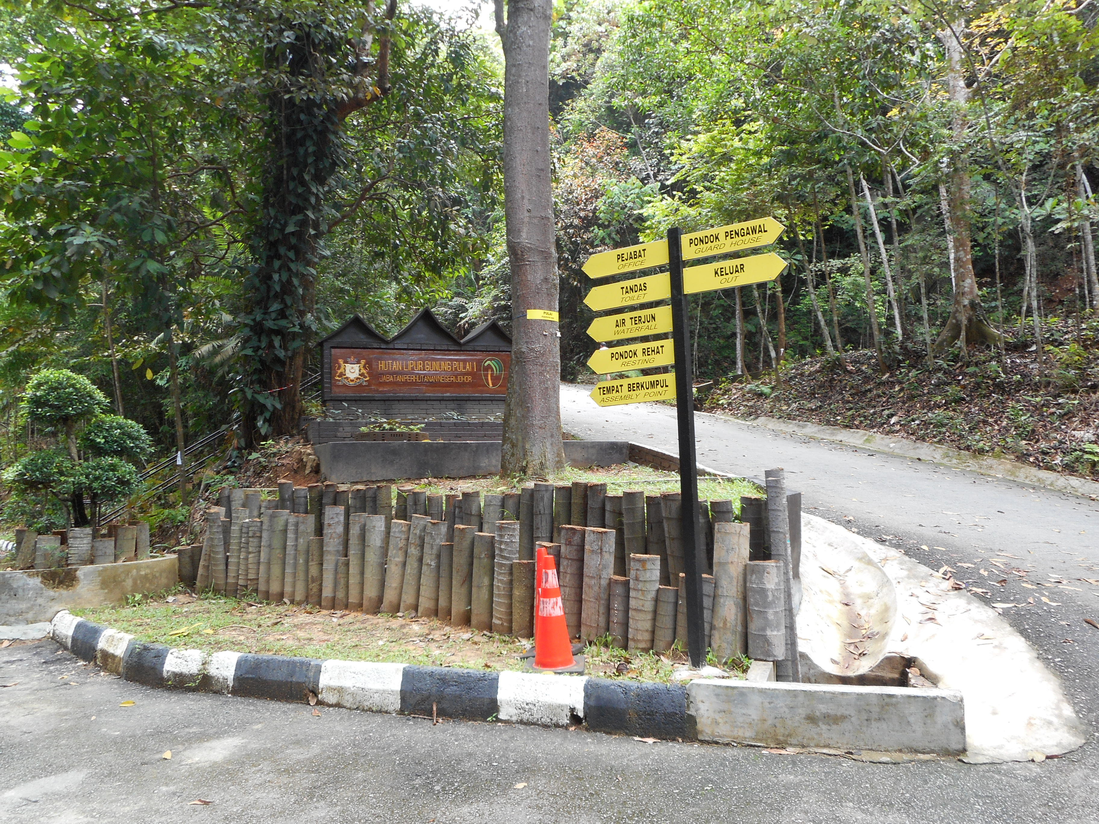 Mount Pulai 1 Recreational Forest, Kulai, Johor, Malaysia